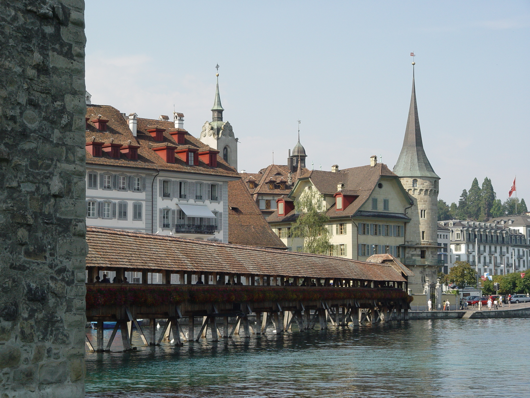 Kapellbrücke Bridge in Lucerne Switzerland